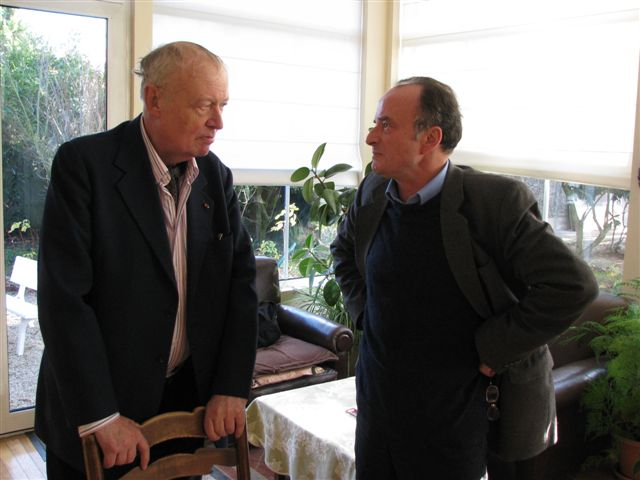 Maciej Morawski (b. 1929), Polish journalist and publicist (Radio Free Europe) and Wojciech Sikora, Polish publicist, editor-in-chief of "Association Institut Littéraire Kultura" (Le Mesnil-le-Roi par 78600 Maisons-Laffitte, France)